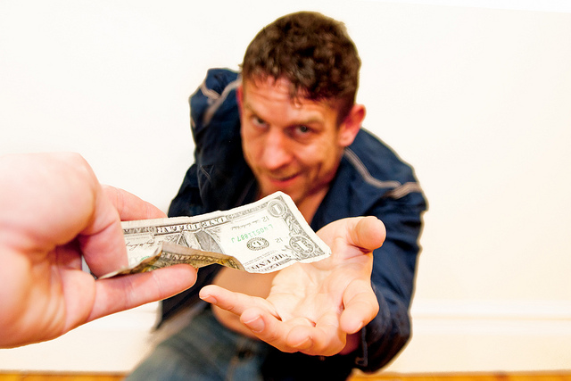 A man paying another man.